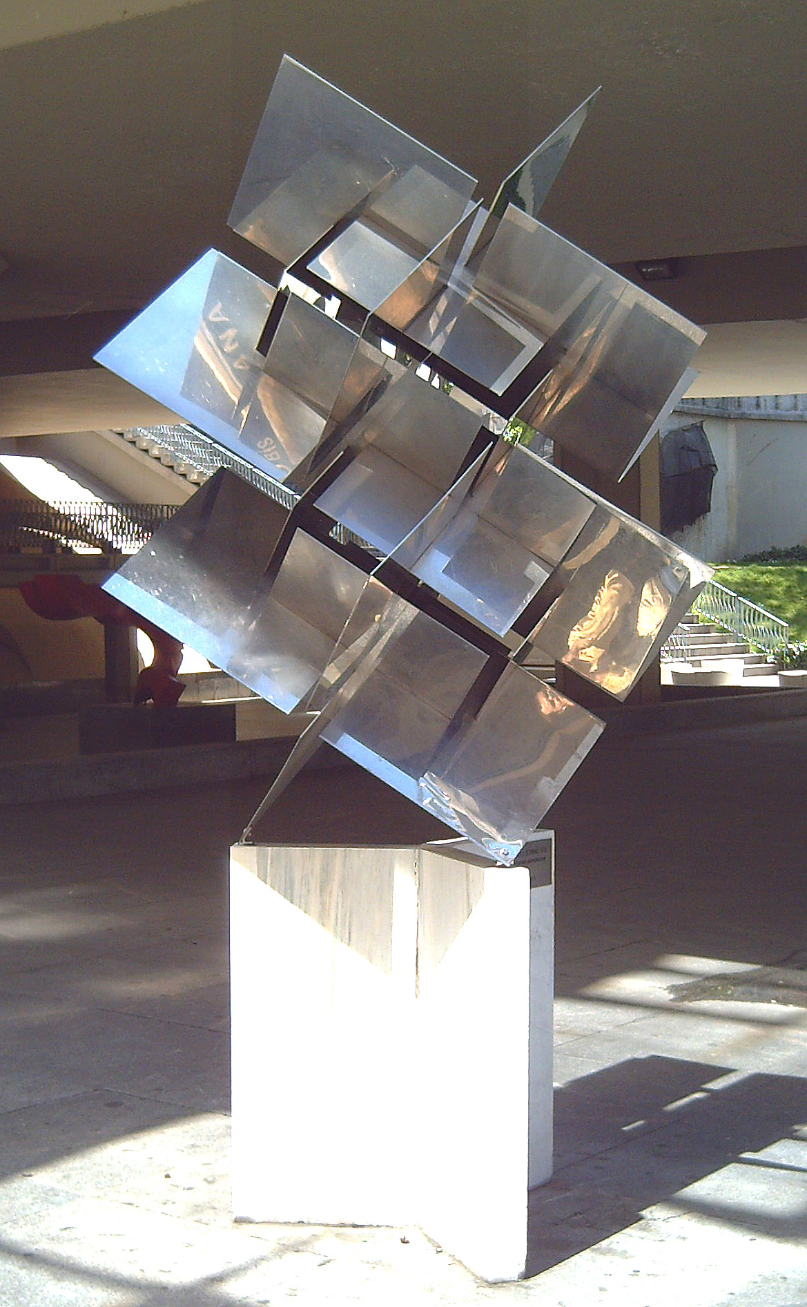 Permutational structure (1972). Sculpture by Francisco Sobrino (born 1932). 180 x 150 x 150 cm. Stainless steel. It is at the Open-Air Sculpture Museum at 41st Paseo de la Castellana (avenue) in Madrid (Spain).